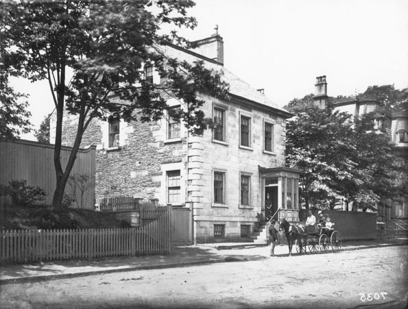 Granite-fronted house with carriage in front, looking northwest, No.158 Pleasant Street (now Barrington Street), west side, between South and Harvey Streets, Halifax, then the residence of Assistant Commissary General of Ordnance, Anthony Sutton Beswick, who was at Halifax from about 1877 to about 1880. House once belonged to Hon. William A. Henry (a Father of Confederation, a co-author of the British North America Act, a provincial Attorney General,a Member of the Nova Scotia House of Assembly, a Mayor of Halifax and the first Nova Scotian to serve as a justice of the Supreme Court of Canada). To right is seen stone house at corner of Harvey Street (No.162) in which Lewis Price, inspector of militia lived in 1879. To left is fence of McNab, Binney, Fuller House.Halifax Regional Municipality, Nova Scotia, Canada.